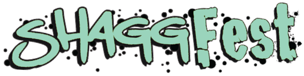 Logo for Shaggfest